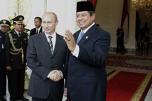 JAKARTA. With President of Indonesia Susilo Bаmbang Yudhoyono.